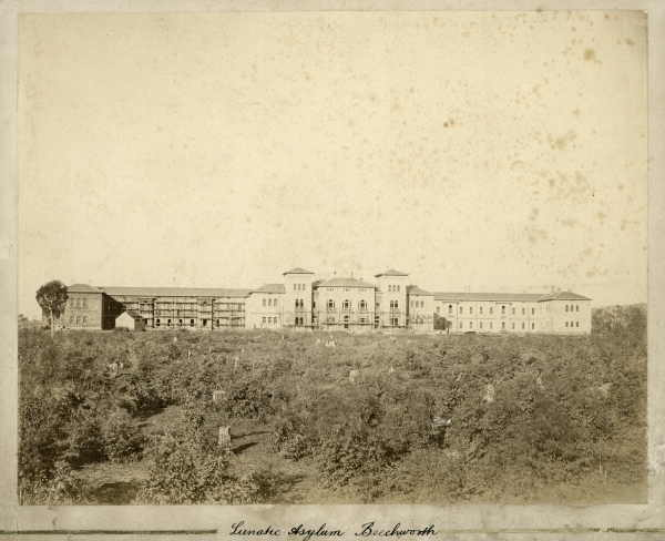 Beechworth Lunatic Asylum